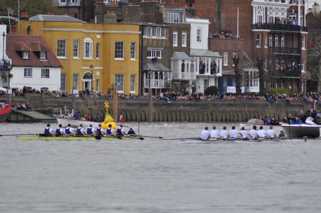 Description from Flickr: Boat Race 2012 In Hammersmith 2 The Boat Race 2012 between Oxford and Cambridge Universities on the Thames near Hammersmith Bridge in London